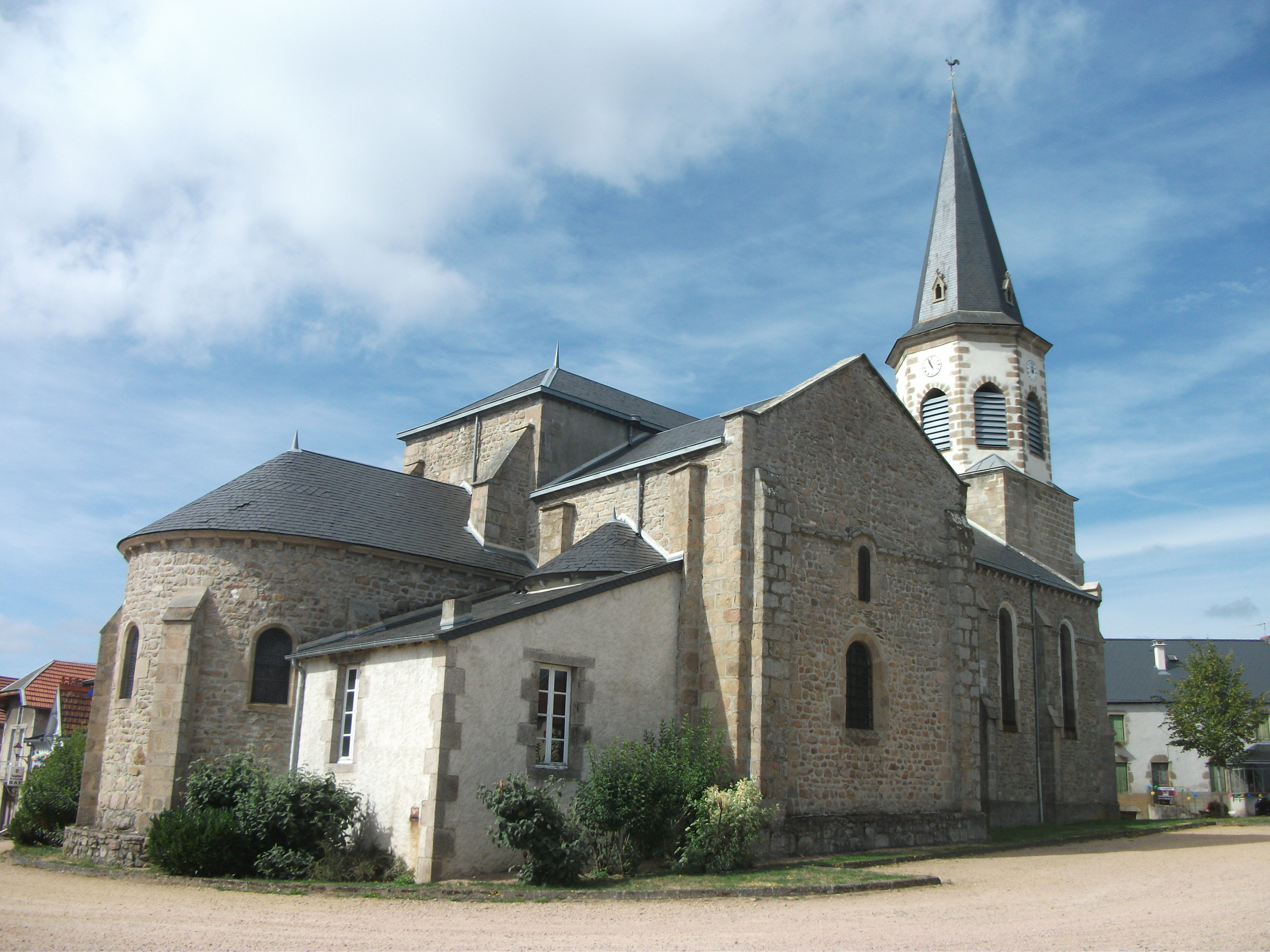 Church of Servant, Puy-de-Dôme, Auvergne-Rhône-Alpes, France. [18832]